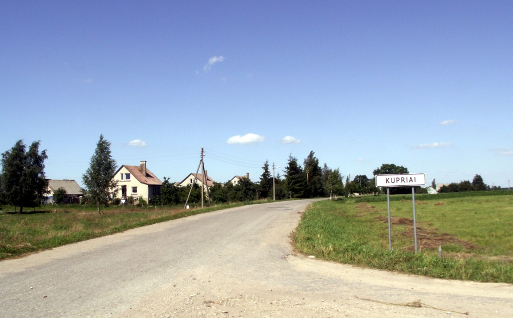 Kupriai, Šiauliai district, Lithuania